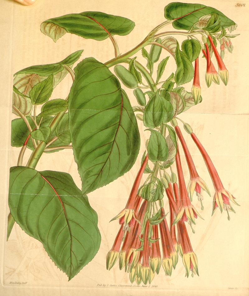 Illustration of Fuchsia fulgens